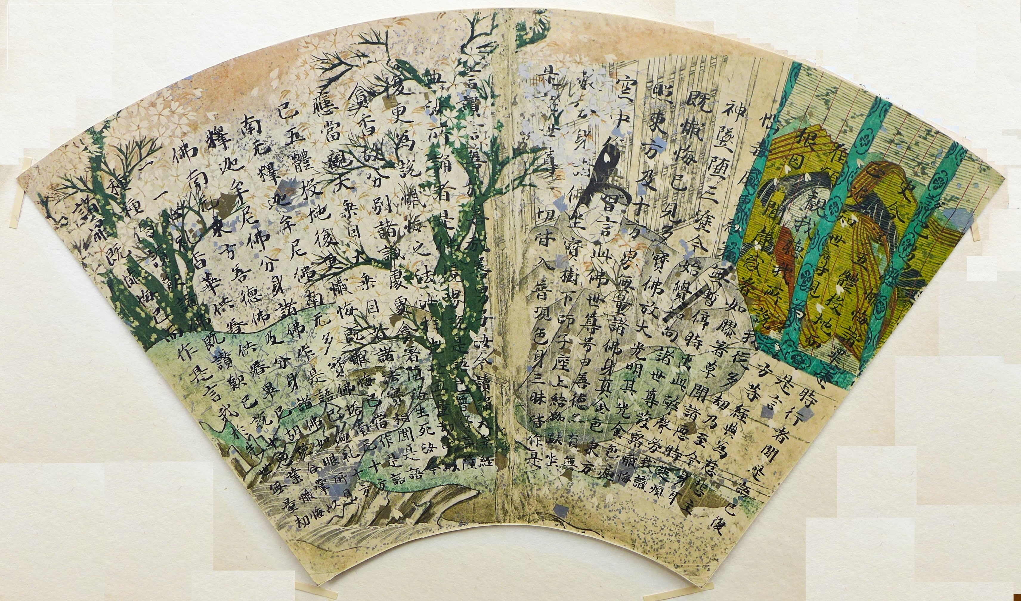 Fan-paper album of Hokekyō Sutra ink on illustrated paper, in Shitennō-ji Temple, Osaka,Japan, ACE12th century